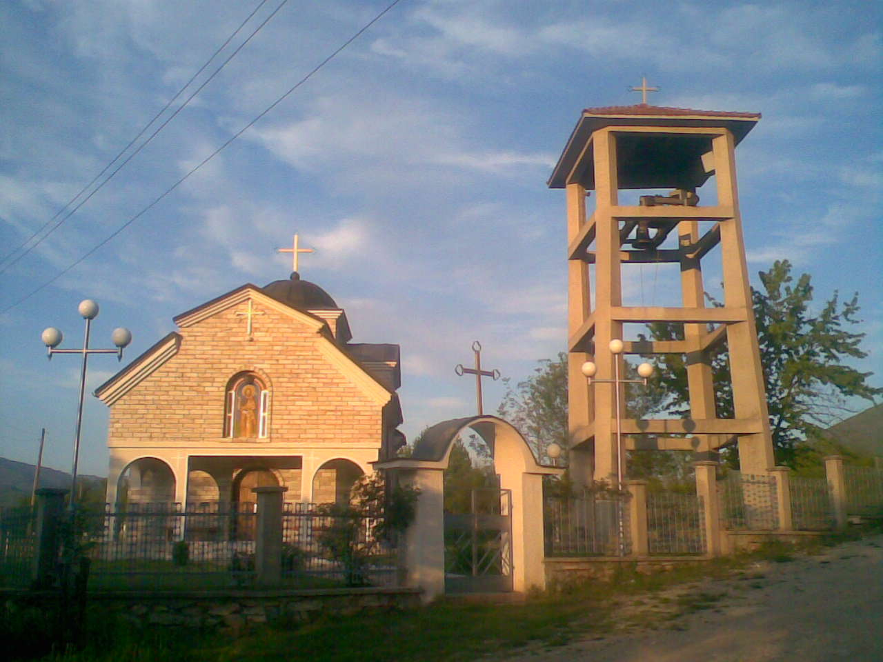 Church of Saint John the Baptist in the village of Staroec (Kichevo region), Macedonia